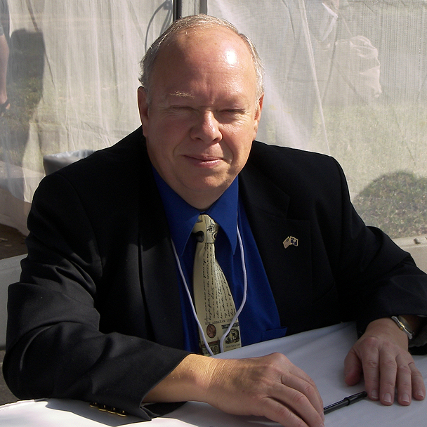 Author Orville Vernon Burton at the 2007 Texas Book Festival, Austin, Texas, United States.